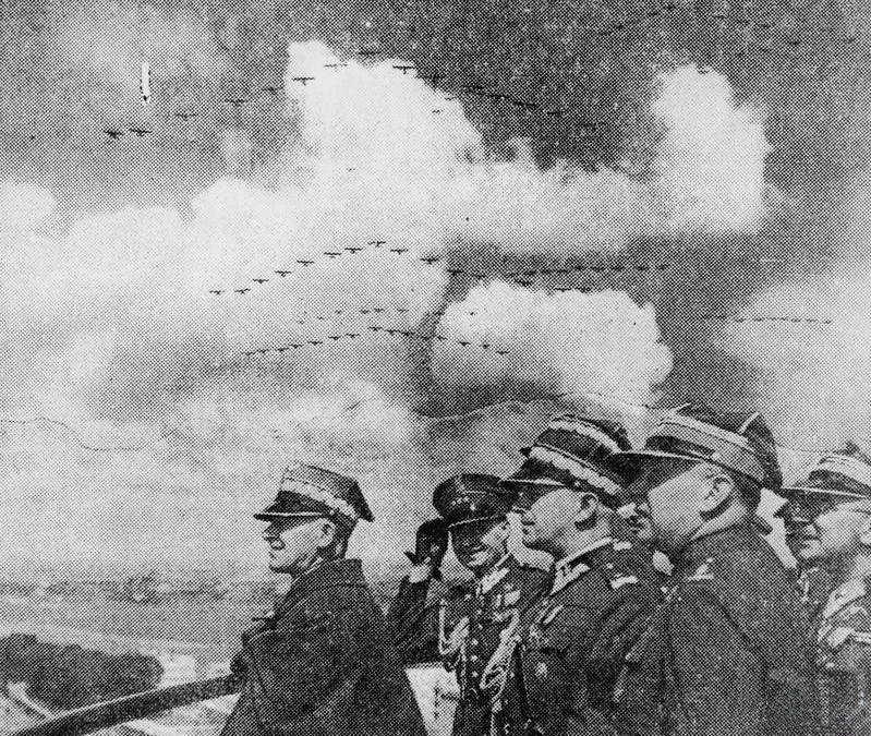 Marshall Edward Śmigły-Rydz and his generals